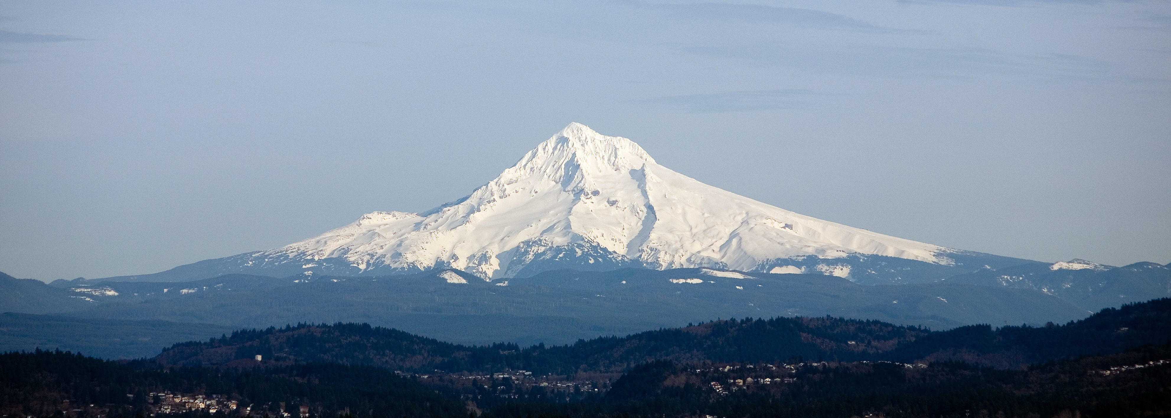 Mount Hood seen from OHSU